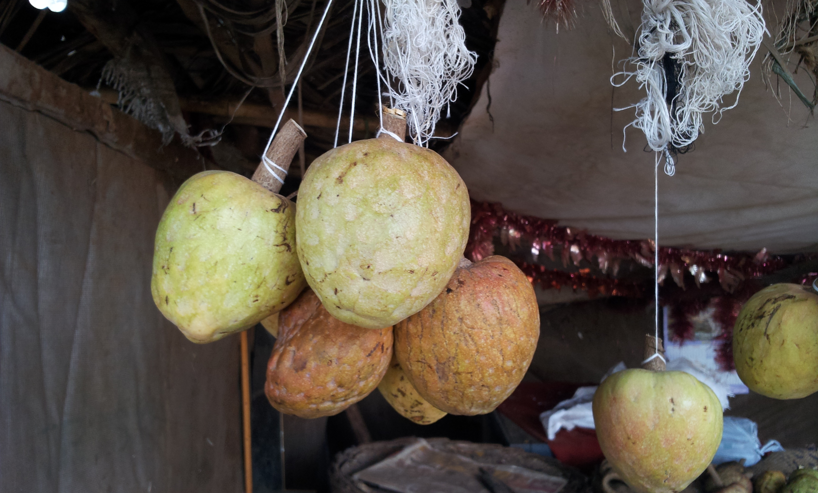 Annona reticulata [Hindi: Ramphal], a species of Custard Apple for sale at a fruit vendor near Sangareddy, Andhra Pradesh, India